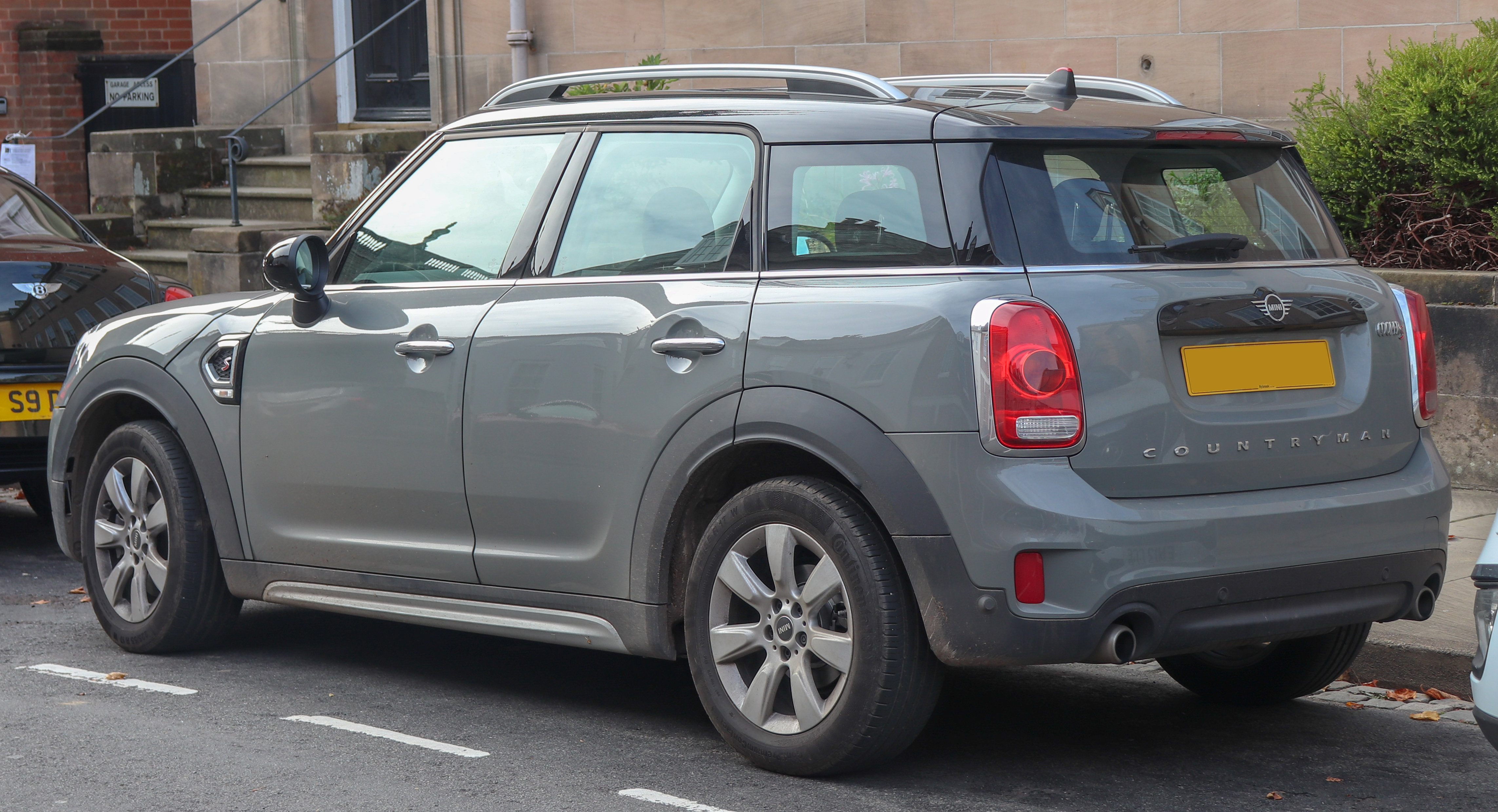 2018 Mini Countryman Cooper S 2.0 Rear Taken in Warwick